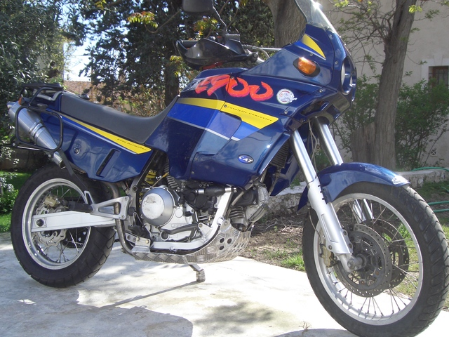 Cagiva Elefant 900 (944 Upgrade)